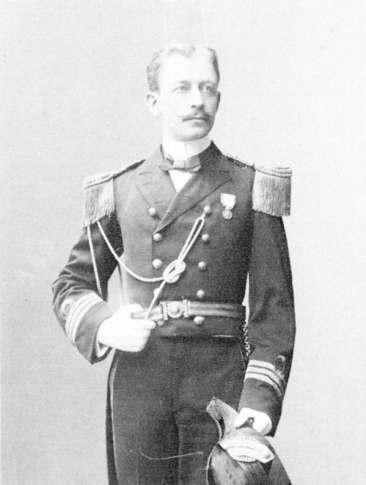 Swedish vice admiral Claës Lindsström (1876-1964).